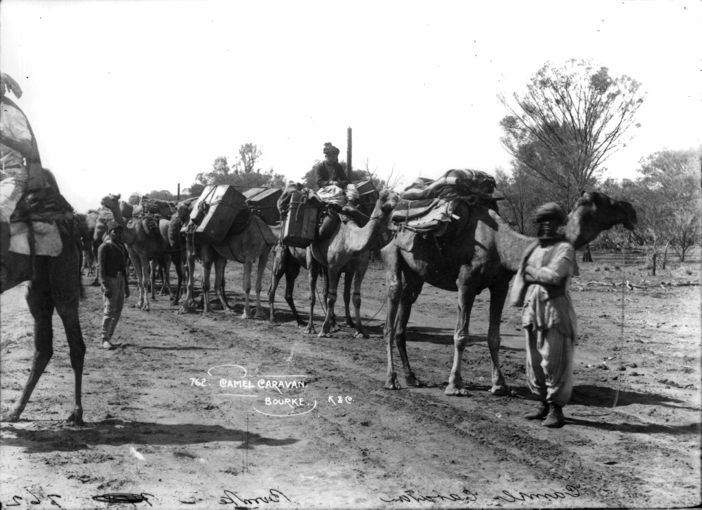 Format: Glass plate negative. Repository: Tyrrell Photographic Collection, Powerhouse Museum Part Of: Powerhouse Museum Collection General information about the Powerhouse Museum Collection is available at Persistent URL: Acquisition credit line: Gift of Australian Consolidated Press under the Taxation Incentives for the Arts Scheme, 1985